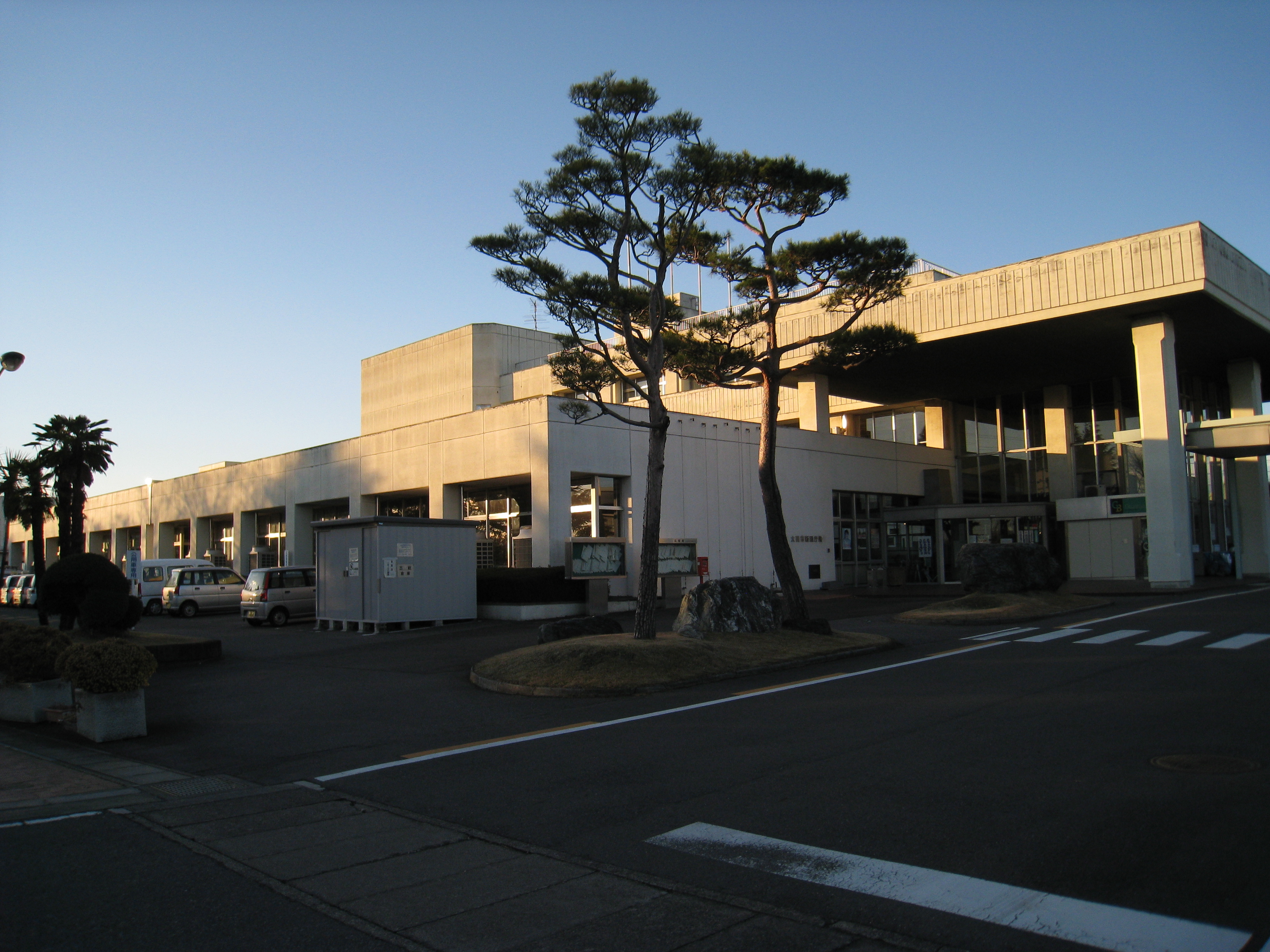 Ota City Hall Nitta Branch